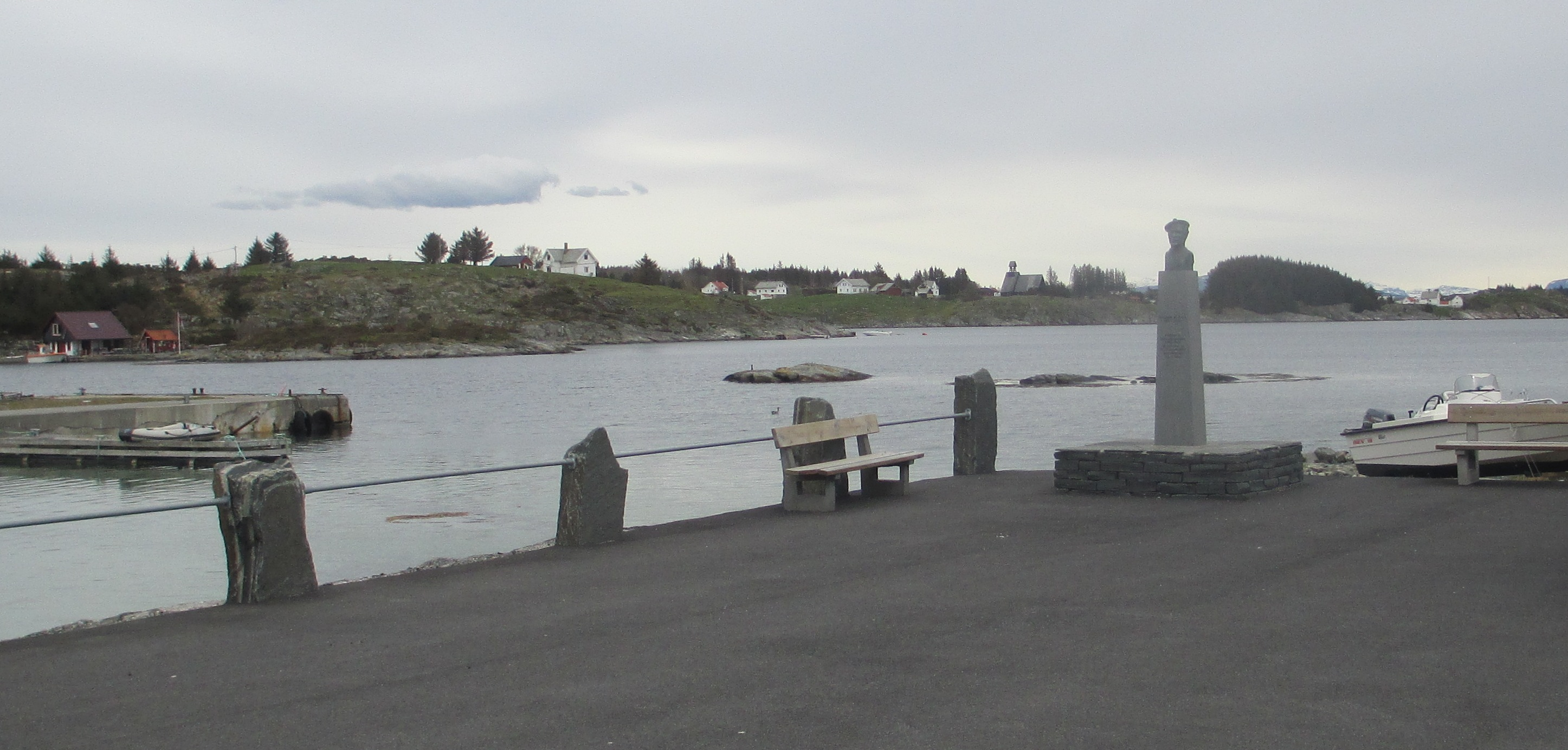 Scene from Stora Kalsøy, Austevoll, Norway, with war memorial and Stora Kalsøy chapel in background